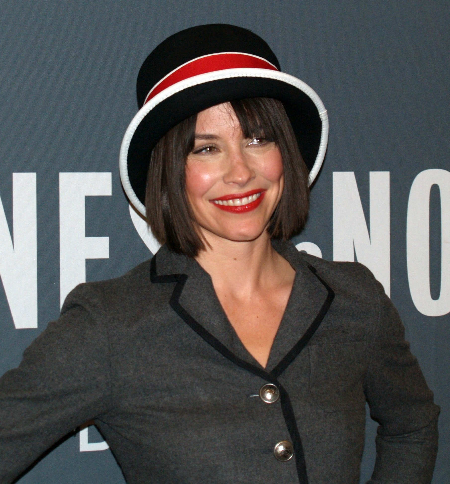 Actress Evangeline Lilly at the Barnes & Noble in Tribeca, Manhattan for a November 17, 2014 signing of the first volume of her children's book, The Squickerwonkers. This photo was created by Luigi Novi. It is not in the public domain, and use of this file outside of the licensing terms is a copyright violation.